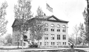 This building was located at the corner of Meldrum and Magnolia. It housed Fort Collins High School from 1903-1924 and Fort Collins Junior High School (later Lincoln Junior High School) until 1975.